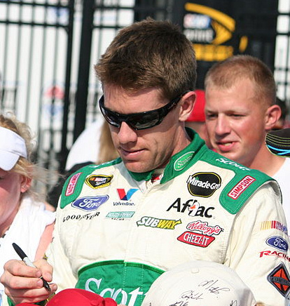 NASCAR driver Carl Edwards before the 2011 Coca-Cola 600 on May 29, 2011.